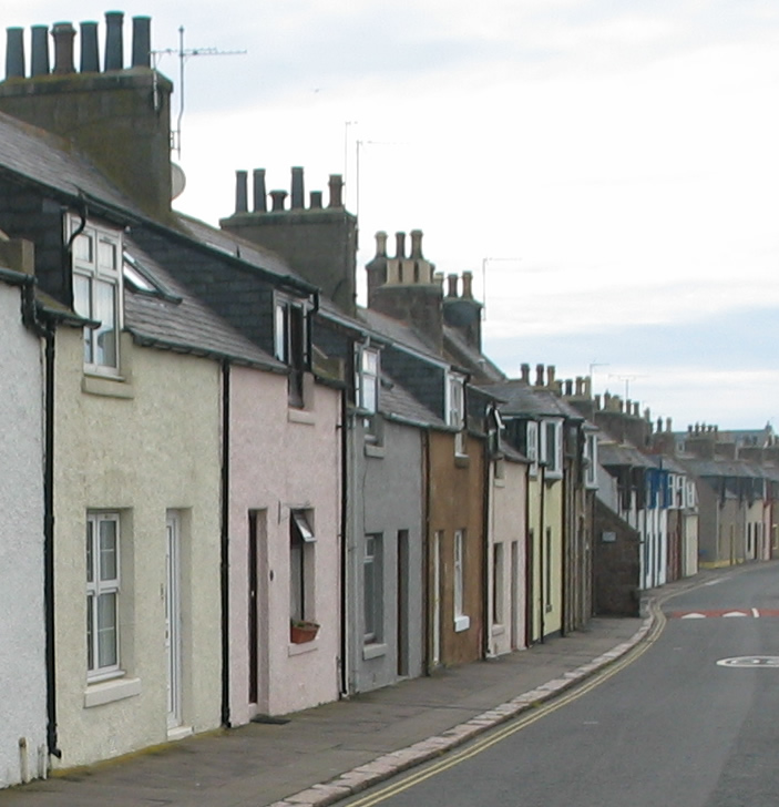 Harbour Street, Cruden Bay Photograph taken by David Dixon 18 June 2006, donated to public domain.